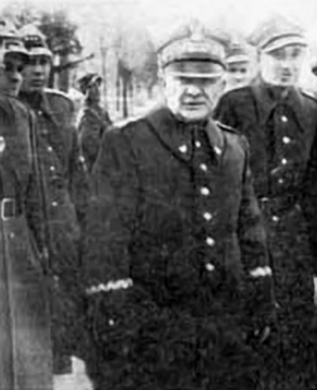 The last inpection of the general (27-28 March 1947}.